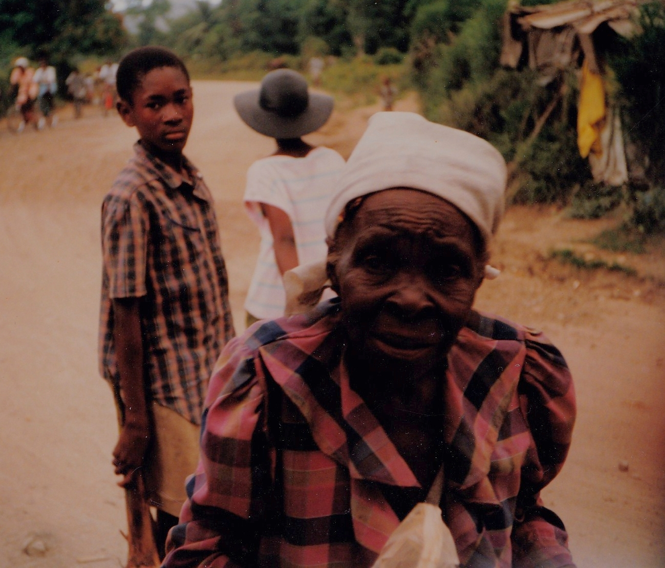 Street scene in Haiti